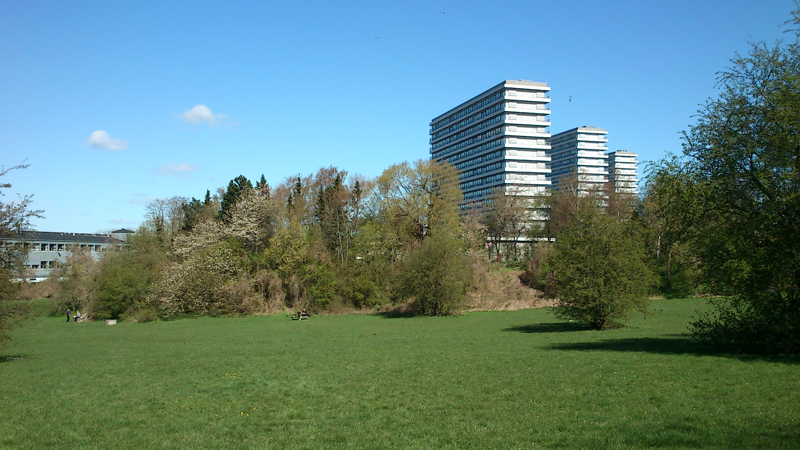 Langenæs